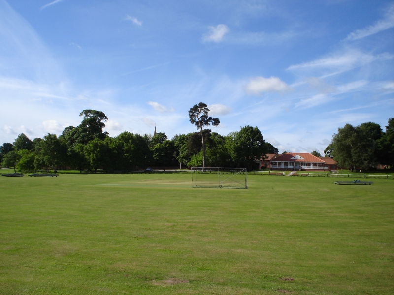 The cricket pitch at Edwinstowe, Nottinghamshire, England. Taken 29/5/2005 by ntollervey. You can just see the spire of St.Mary's church poking up above the tree line.